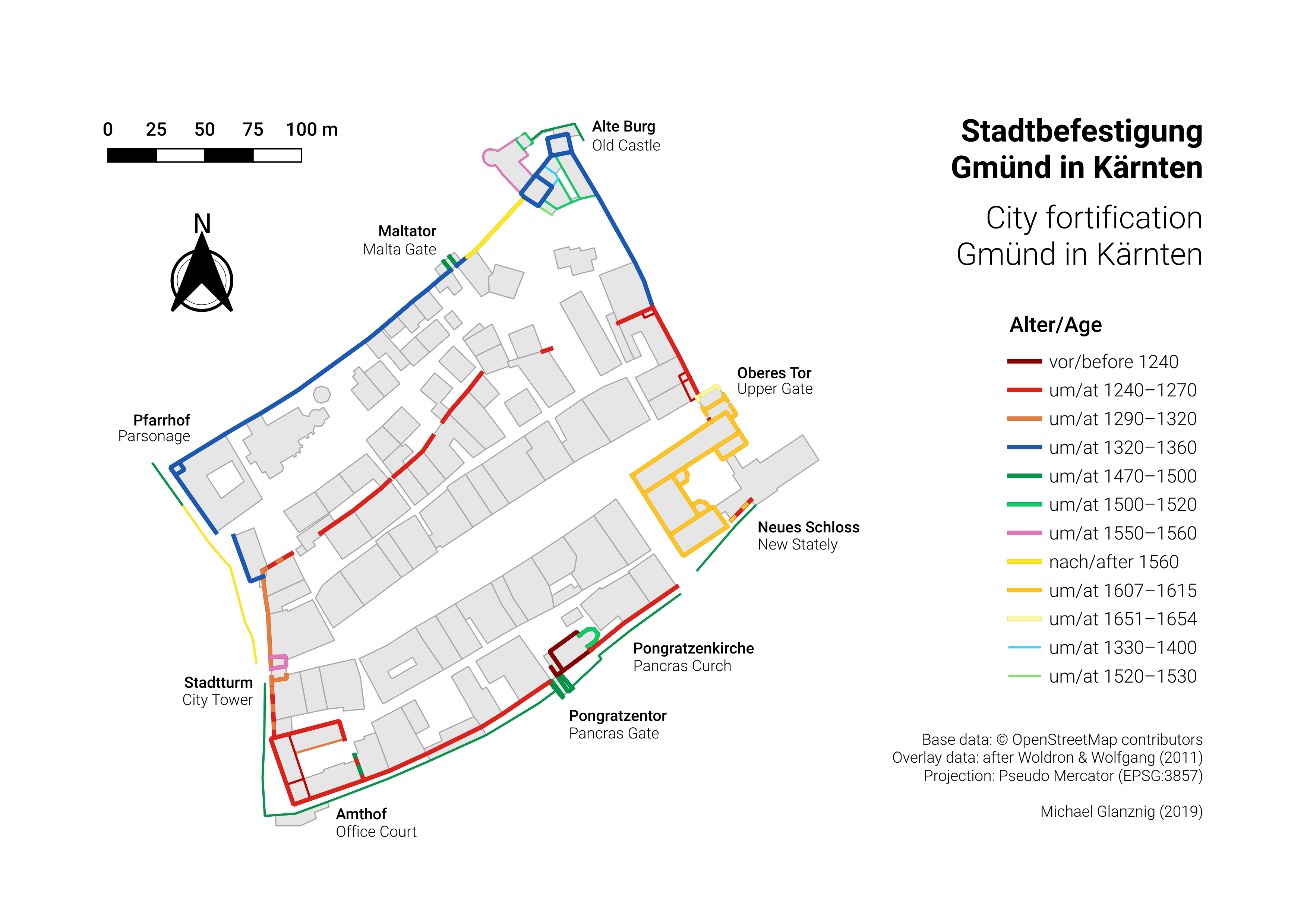 Schematic depiction of the city fortification of Gmünd in Kärnten including age of the fortifications